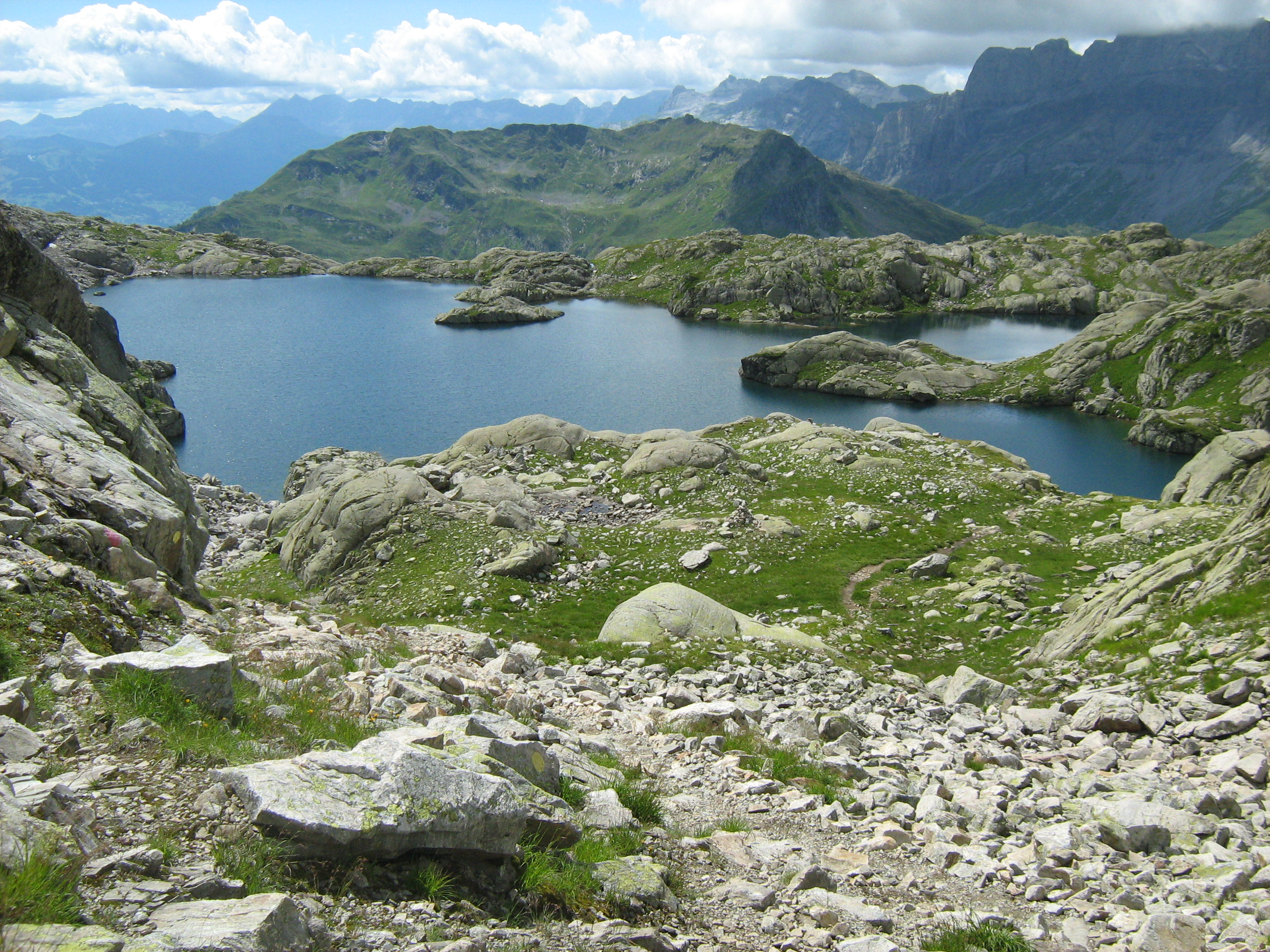 Lac Cornu, a lake in the Aiguilles Rouges massif of Haute-Savoie, France.